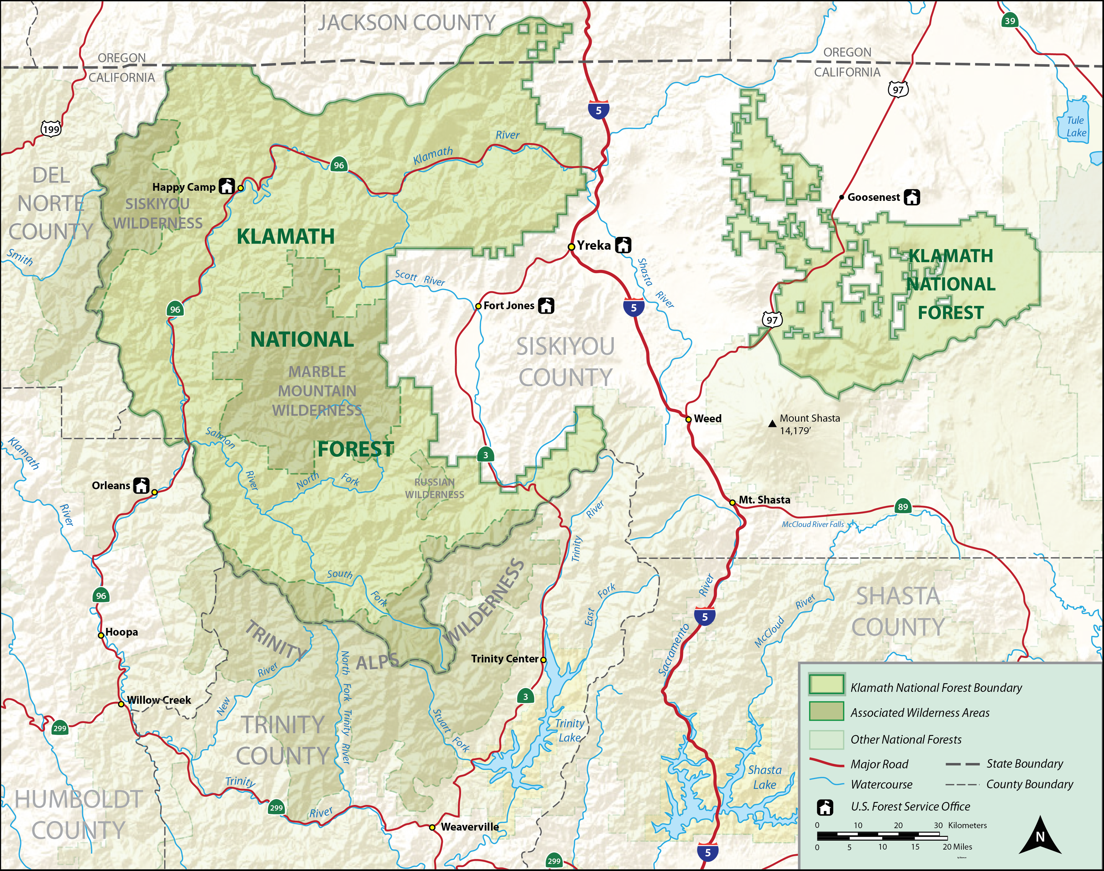 Map of the Klamath National Forest, Northern California, showing boundaries, roads and locations of ranger stations.